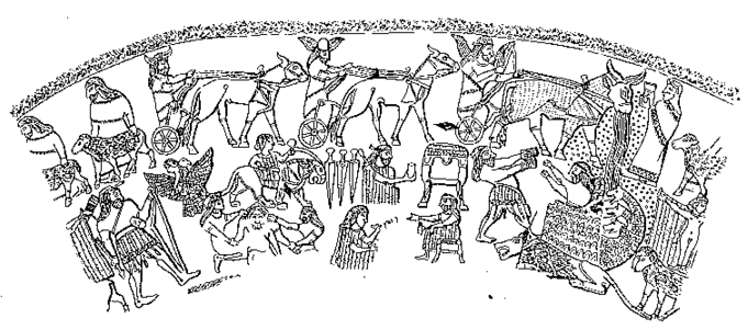 Picture with miphological and fantastic animals. Was founded in Hasanlu (province Azerbaijan, Iran)